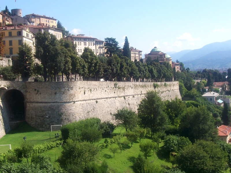 Bergamo, Lombardy, Italy - City wall from Saint James gate